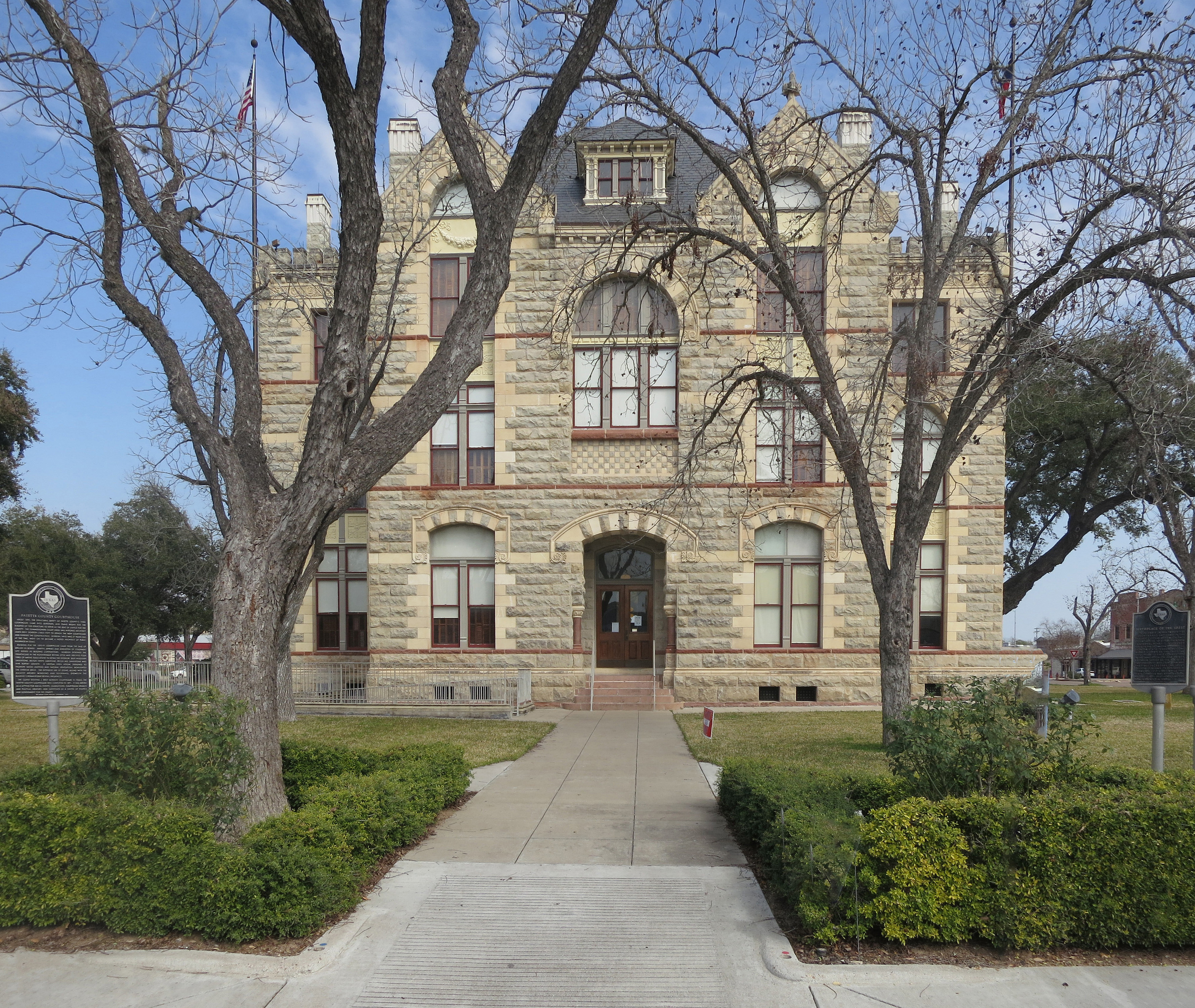 Rear of Courthouse Fayett County Texas.